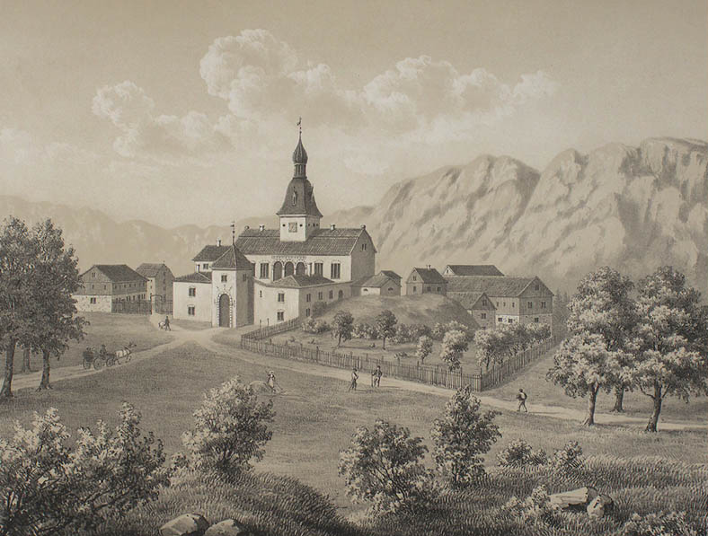 Pictures from the work "Norge fremstillet i Tegninger" from 1848 by Christian Tønsberg. The picture depicts Austråttborgen, Norway.